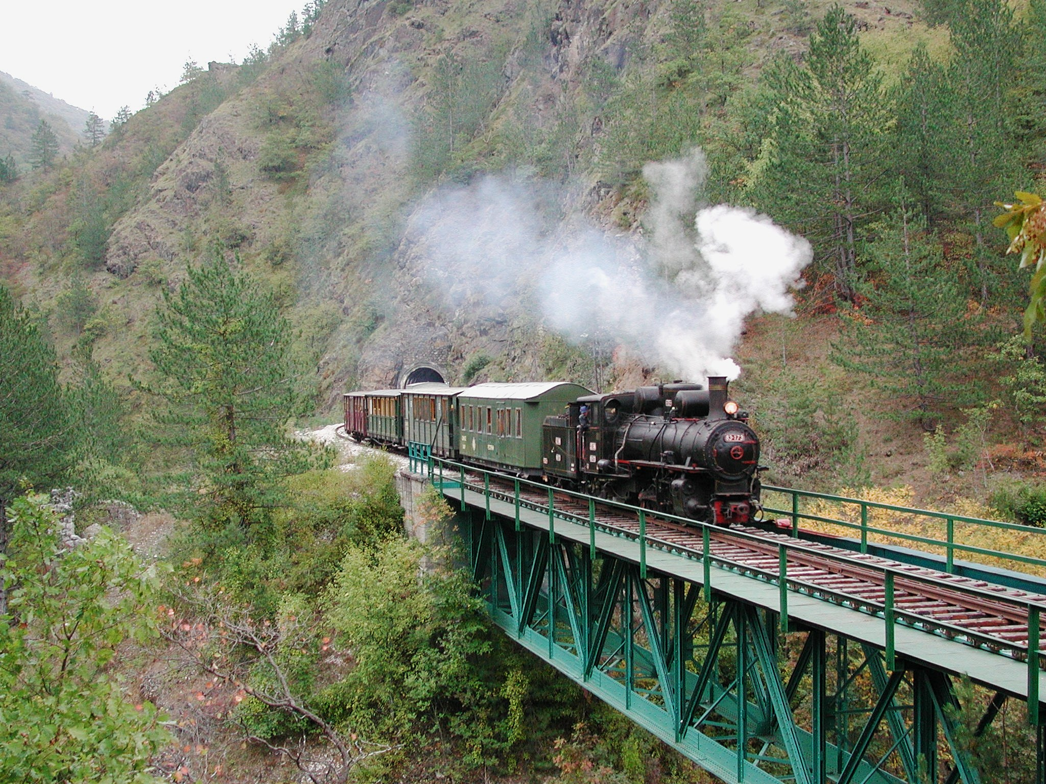 Steam train with class 83 0-8-2 on the Šarganska Osmica (Sargan mountain railway) in western Serbia.